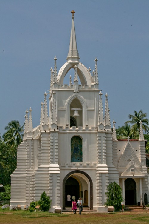 Mãe de Deus Parish Church also commonly known as Saligao church.